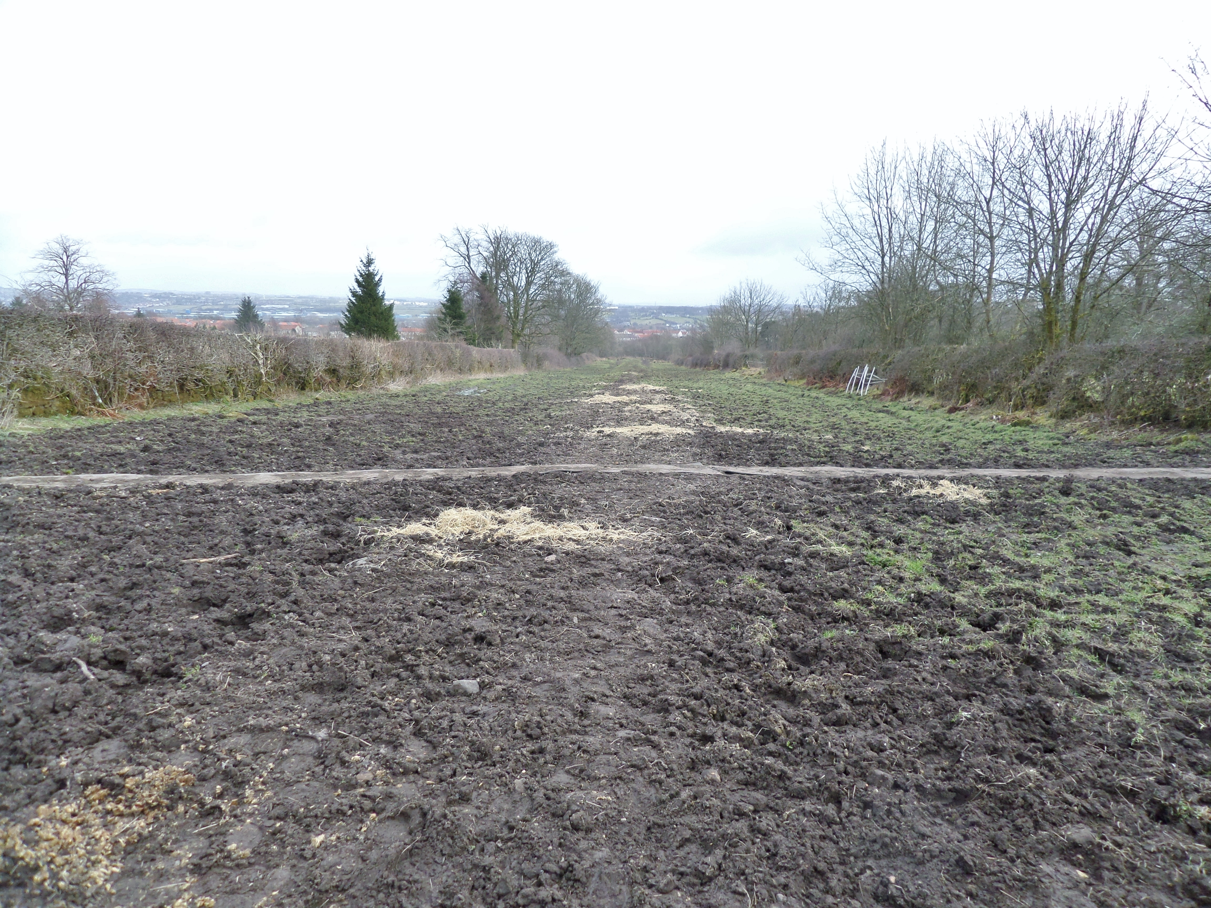 Kilbirnie Place - the 'Grand Avenue'. North Ayrshire, Scotland.